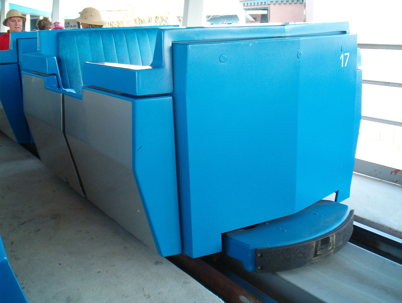 Car #17 from the WEDWay Peoplemover in Tomorrowland at the Magic Kingdom circa 2004.